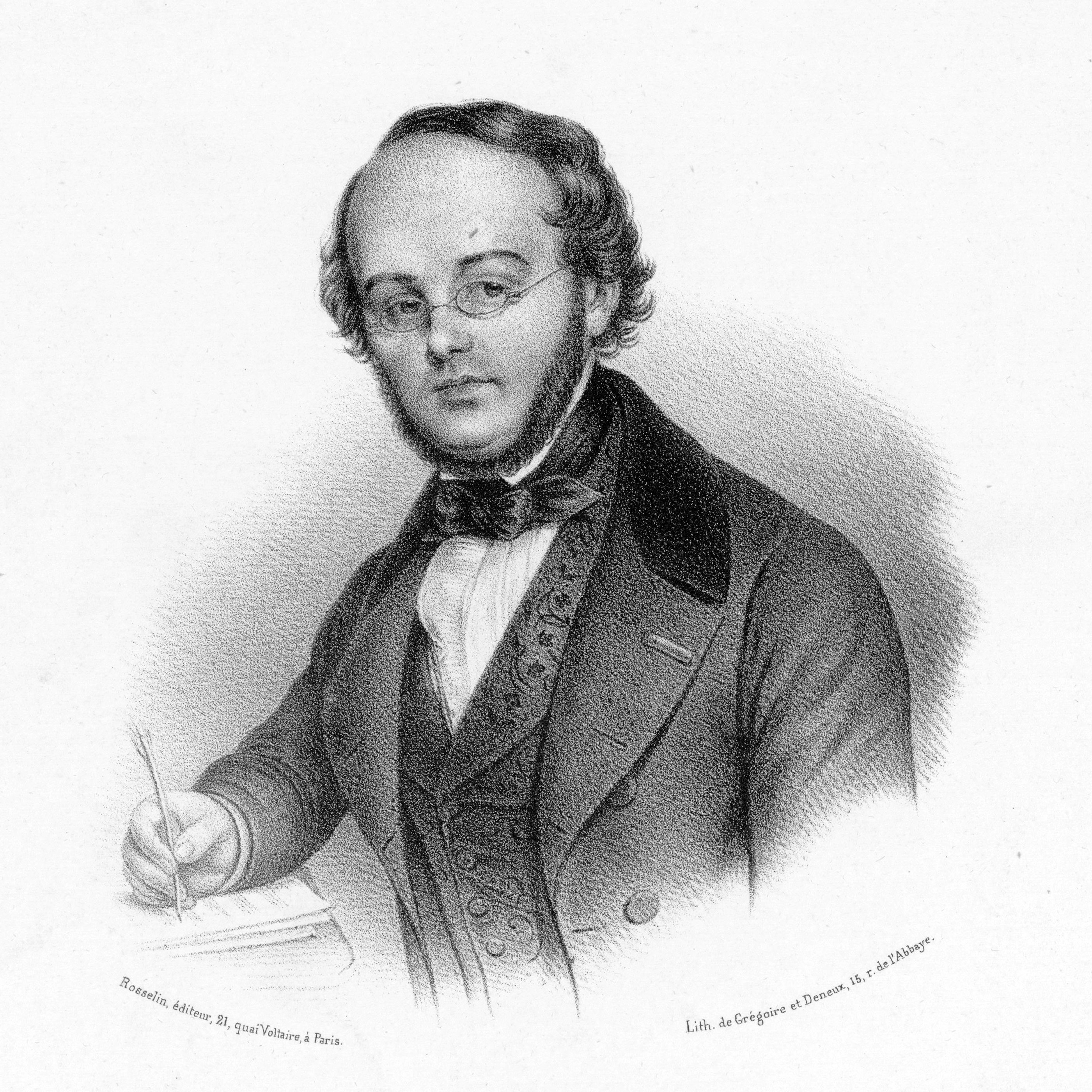 Engraved portrait of the French composer Fromental Halévy as a young man